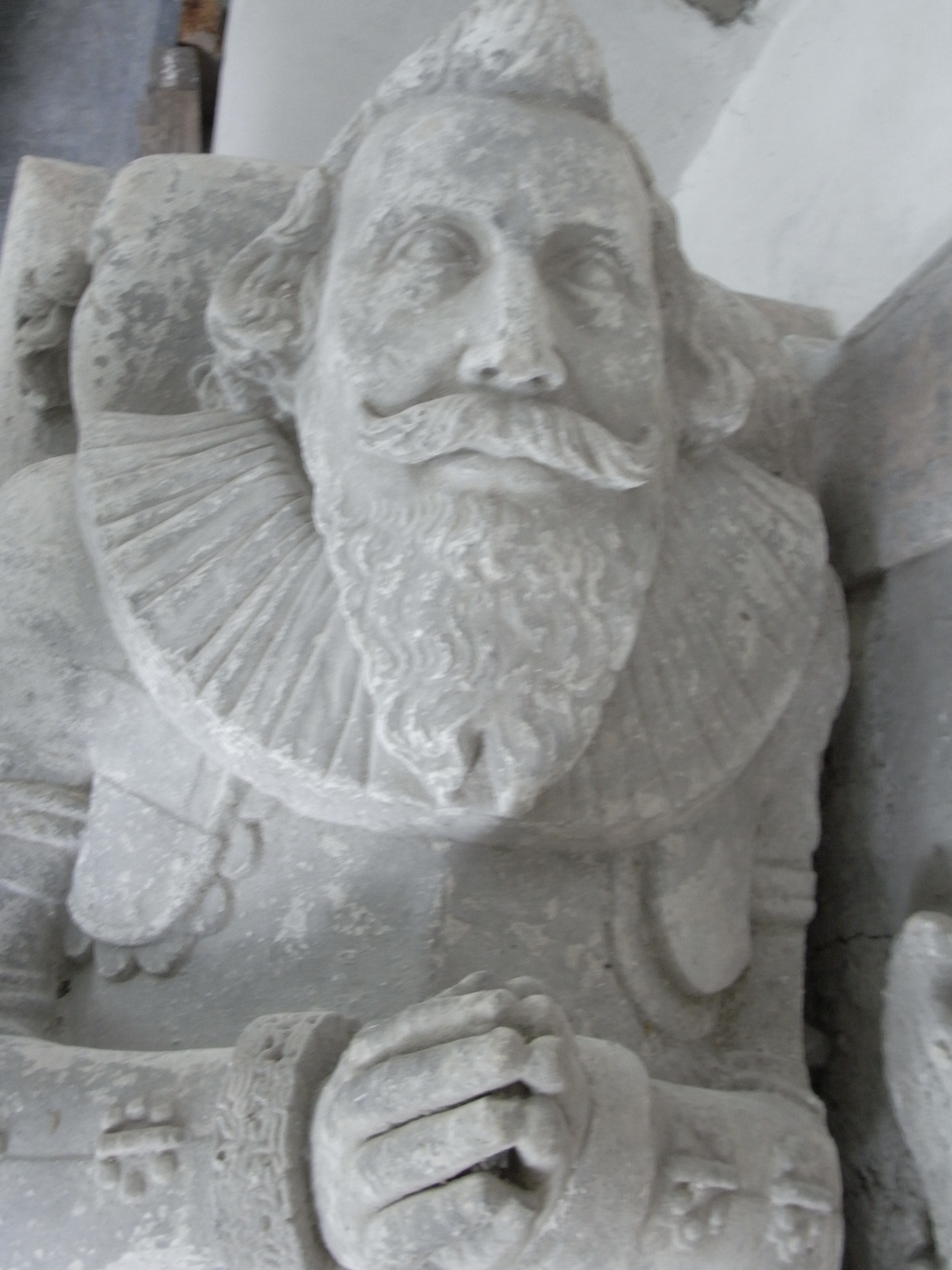 Effigy of John Giffard (d.1622) of Brightley Barton; Chittlehampton Church, Devon.